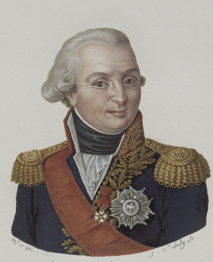 Engraving of Admiral Louis Thomas Villaret de Joyeuse [also: Villaret-Joyeuse] by J. N. Joly. Collection of the National Maritime Museum, London UK.